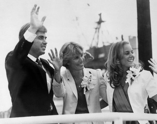 Jack Kemp, wife Joanne and daughter Judith at USS Buffalo (SSN-715) Commissioning